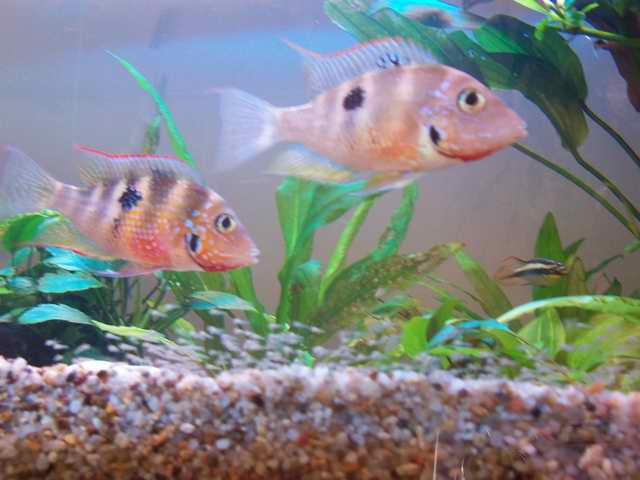 A pair of Thorichthys ellioti cichlids while guarding their fry, which can be seen near the bottom, just above the gravel. The dark-striped fish in the background to the right is a male Common krib (Pelvicachromis pulcher)